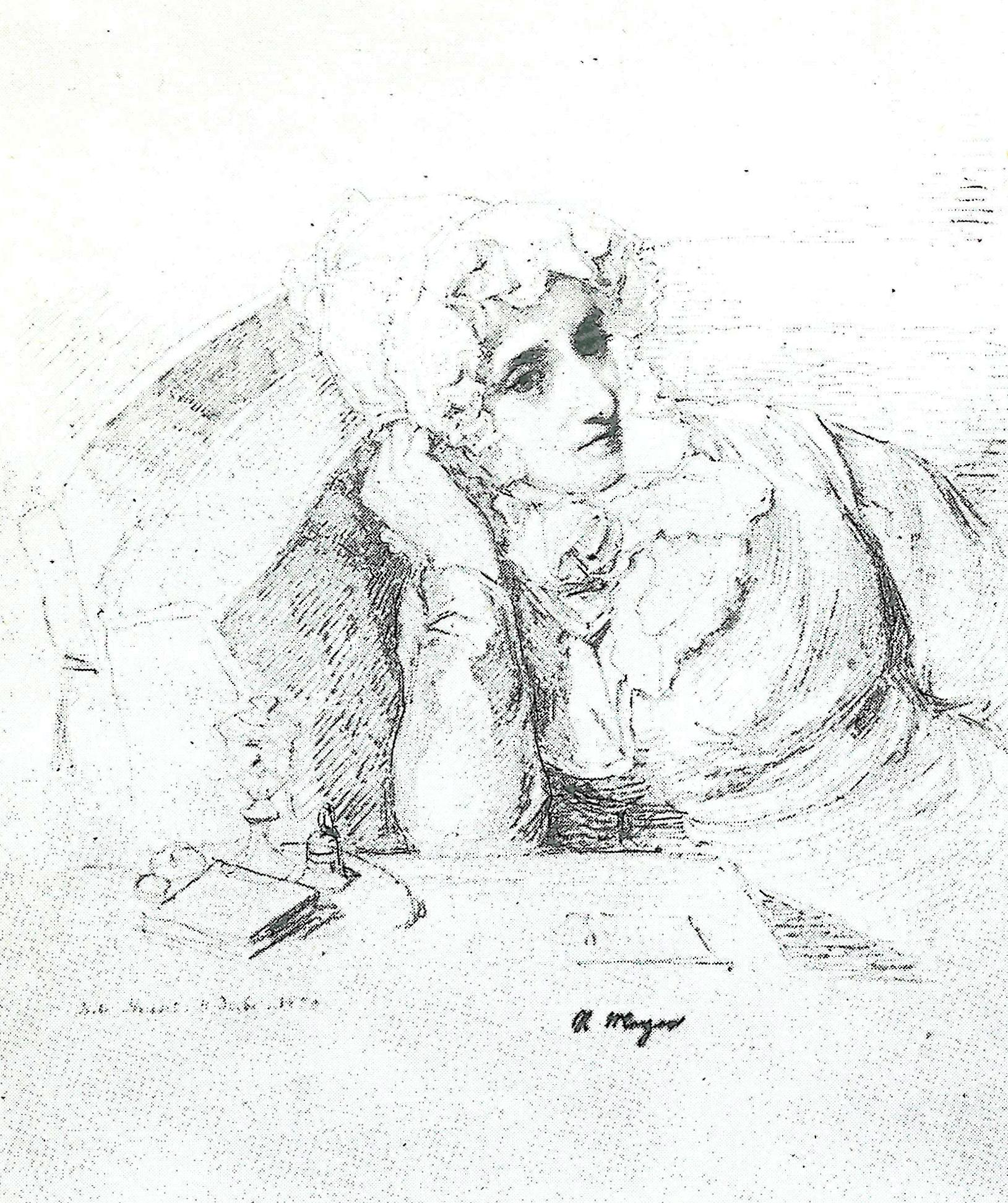 Recha Meyer born Mendelssohn (1767-1831)